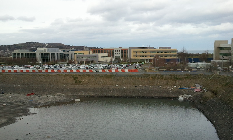 Building-pit Luas Park&Ride Multi-Storey-Carpark Cherrywood